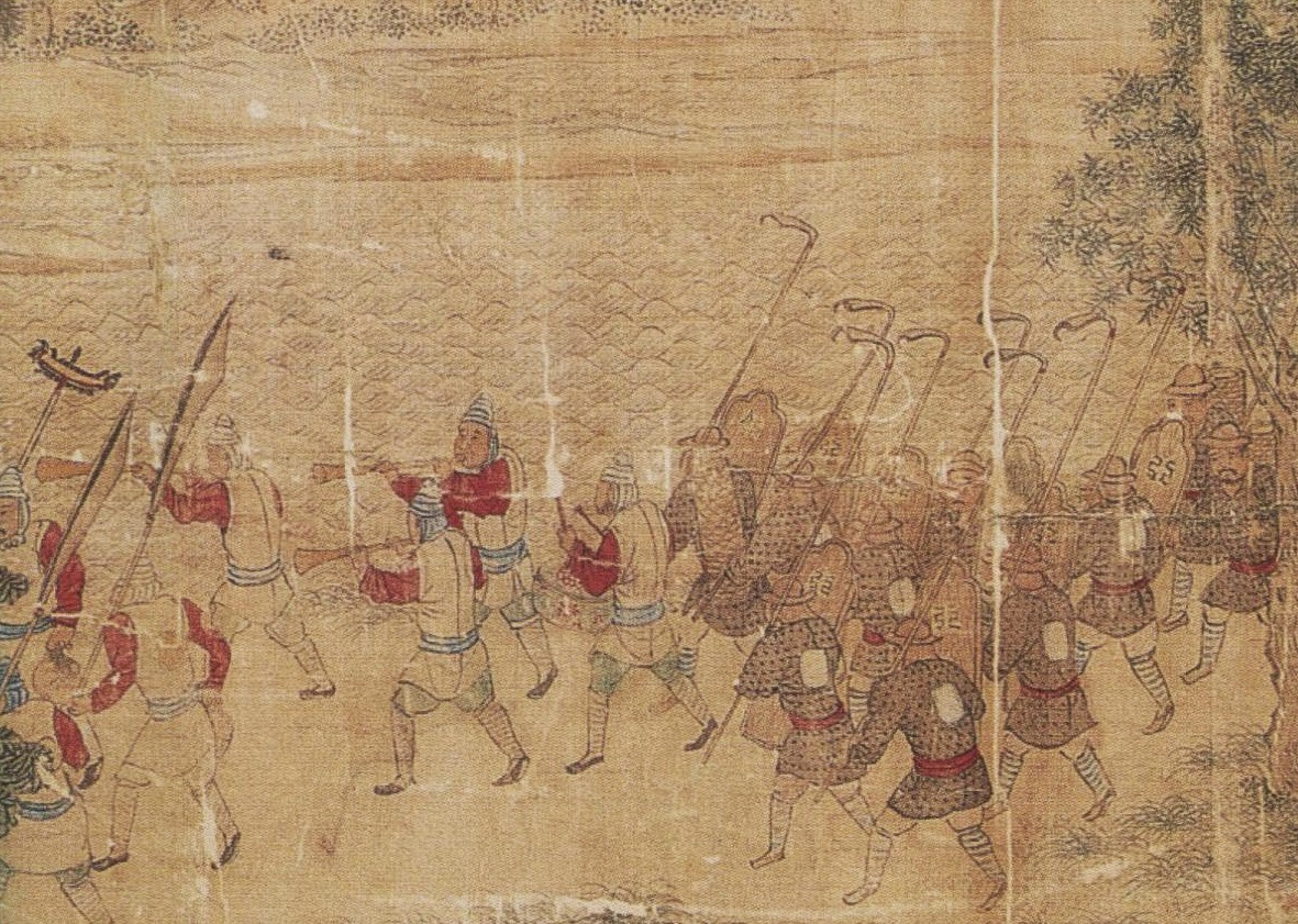 Lang Bing (狼兵, lit. 'Wolf troop') military unit of the Ming dynasty